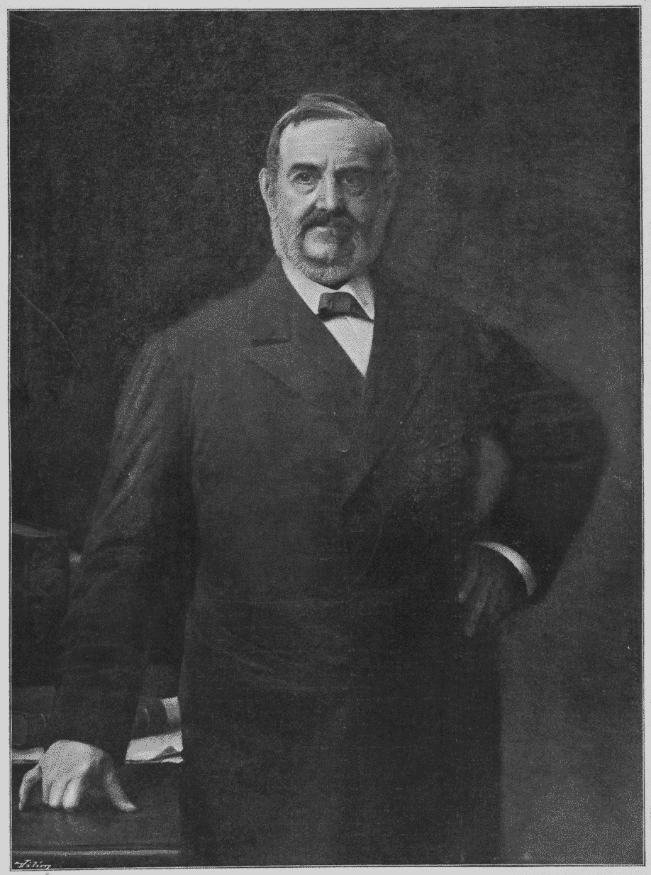 Portrait of František Ladislav Rieger by Václav Brožík. Published in Zlatá Praha magazine on the occasion of upcoming Rieger's 80th birthday.